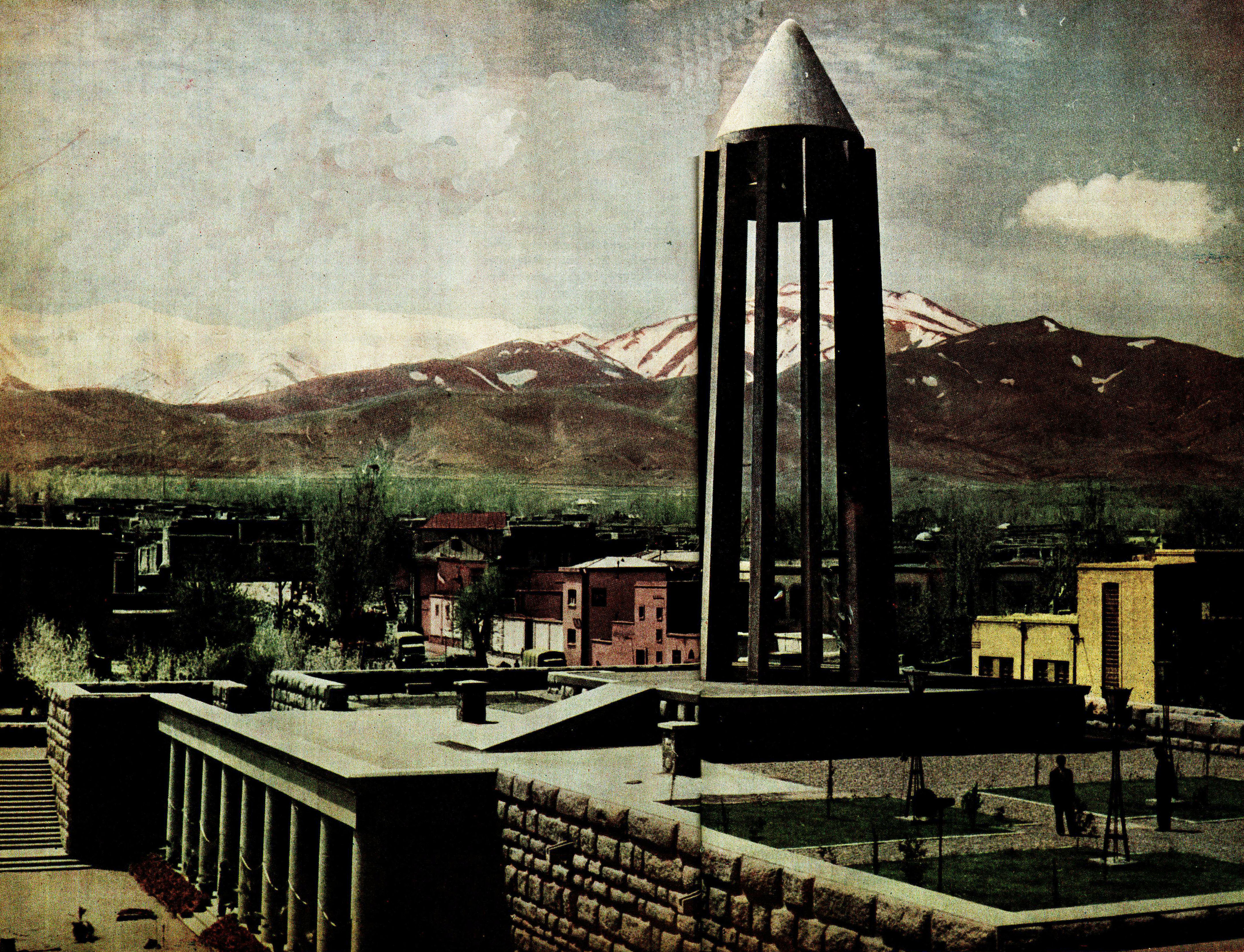 Avicenna Mausolem, Hamadan, Iran